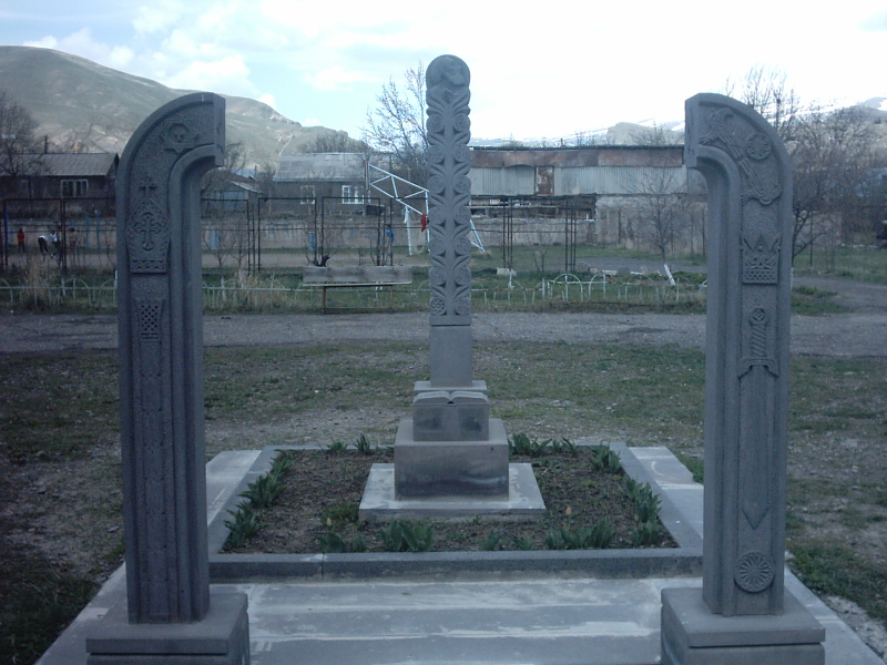 Հեղինակ` Վանիկ Սիմոնյան